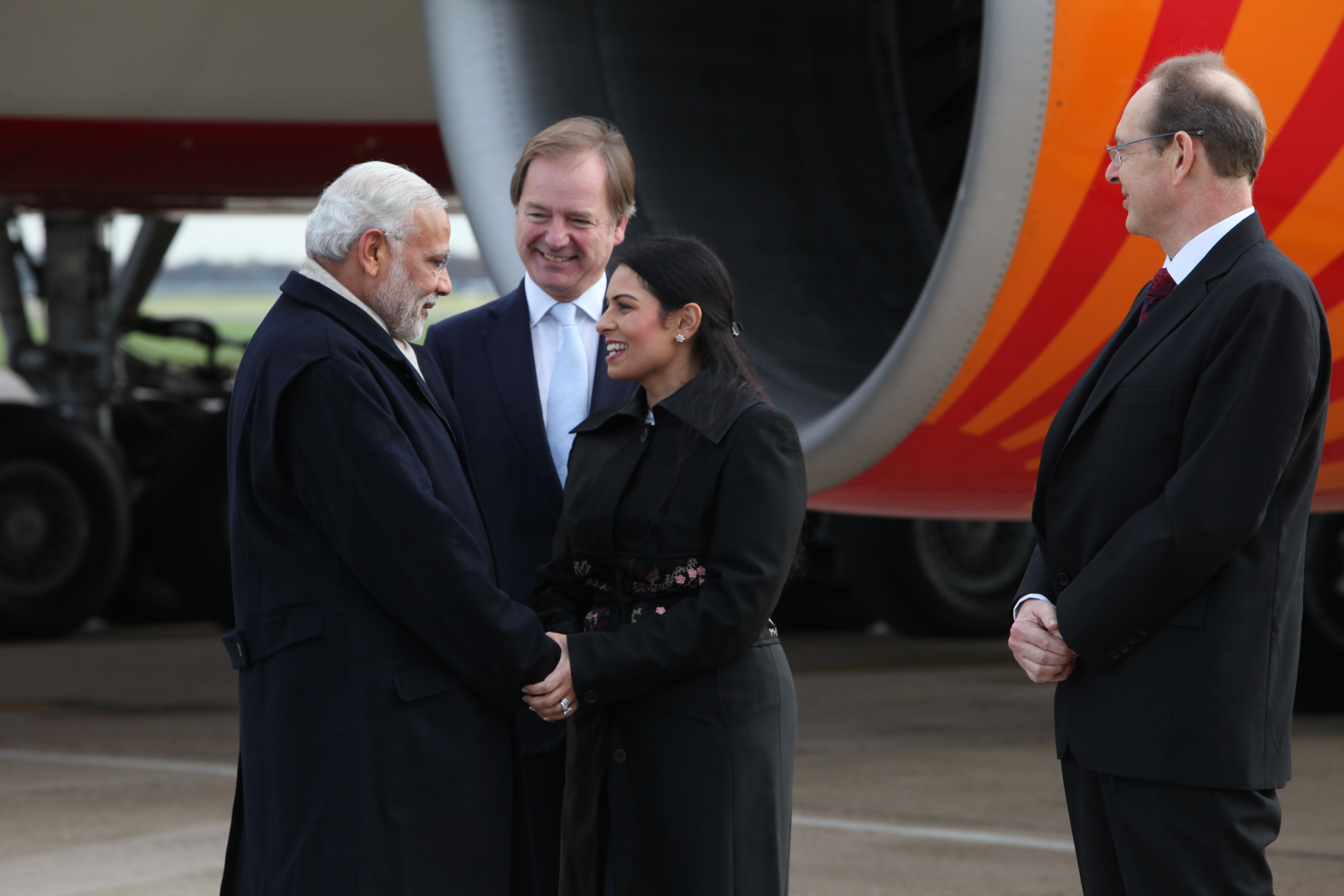 Indian Prime Minister Narendra Modi arrives in London, 12 November 2015.